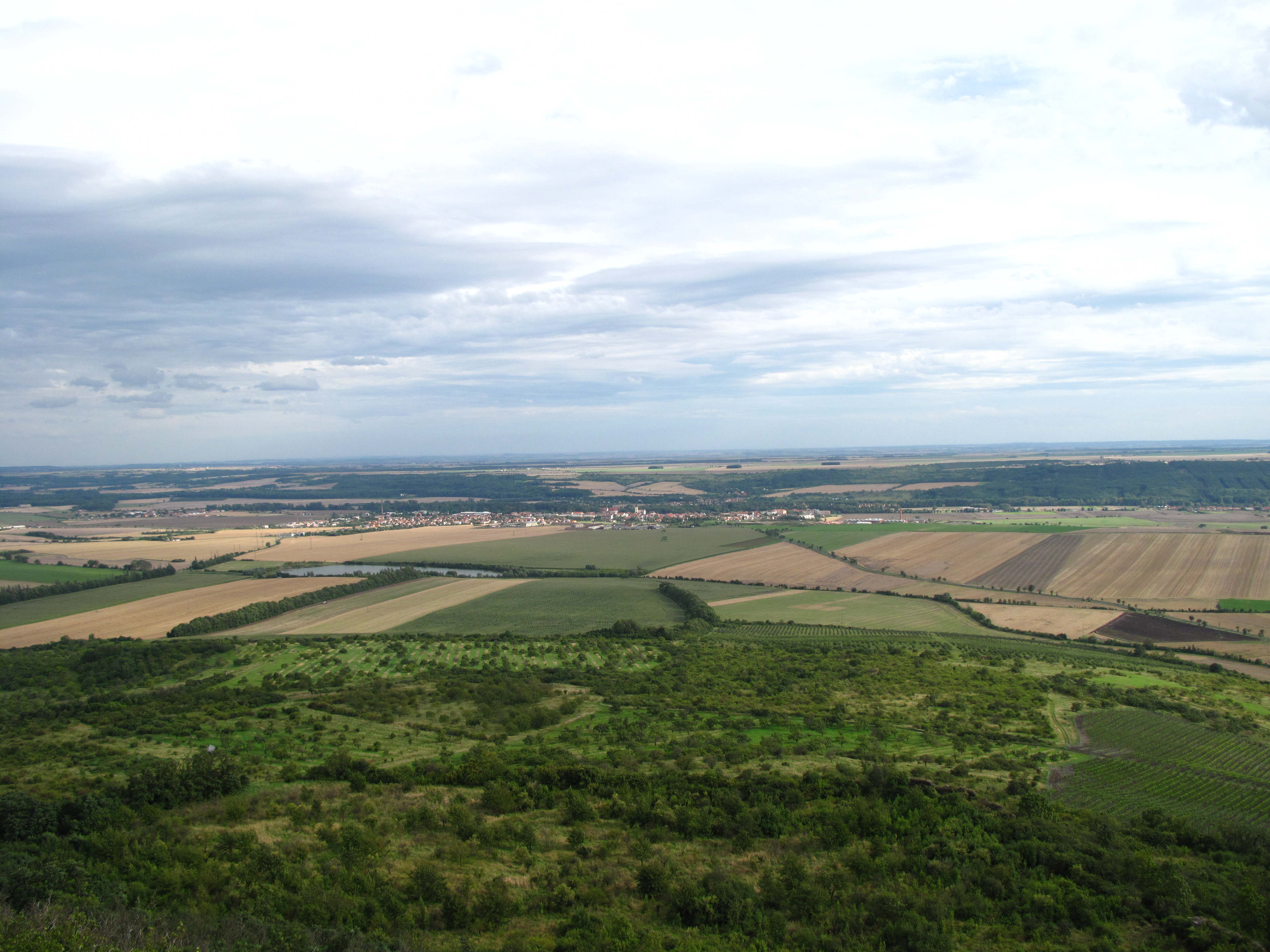 Downer part of Hazmurk Castle (down), pond on Rosovka Stream (in the middle), Libochovice town (background) as seen from Hazmburk Castle (ruin), Litoměřice District, Czech Republic.